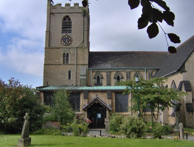 St Mary Magdalene Church, Hucknall. St Mary Magdalene Church, Hucknal, the final resting place of poet Lord Byron and Ada Lovelace.